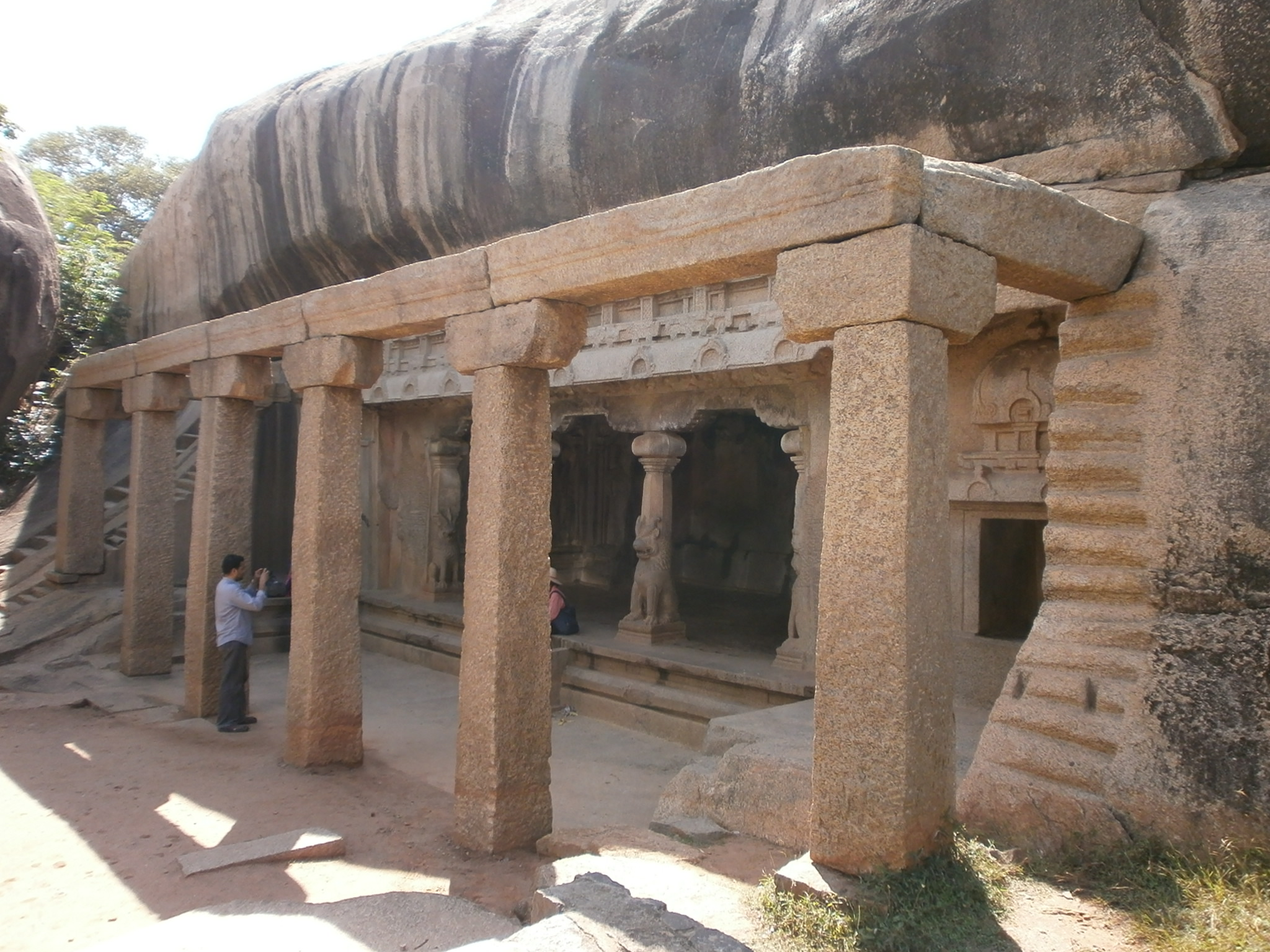 Ramanuja-Mandapam-Mahabalipuram-1